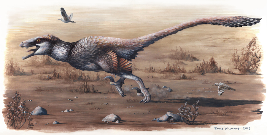 Life restoration of the giant dromaeosaurid Dakotaraptor steini, with the bird species Lamarqueavis petra and the mammal Purgatories in the foreground.